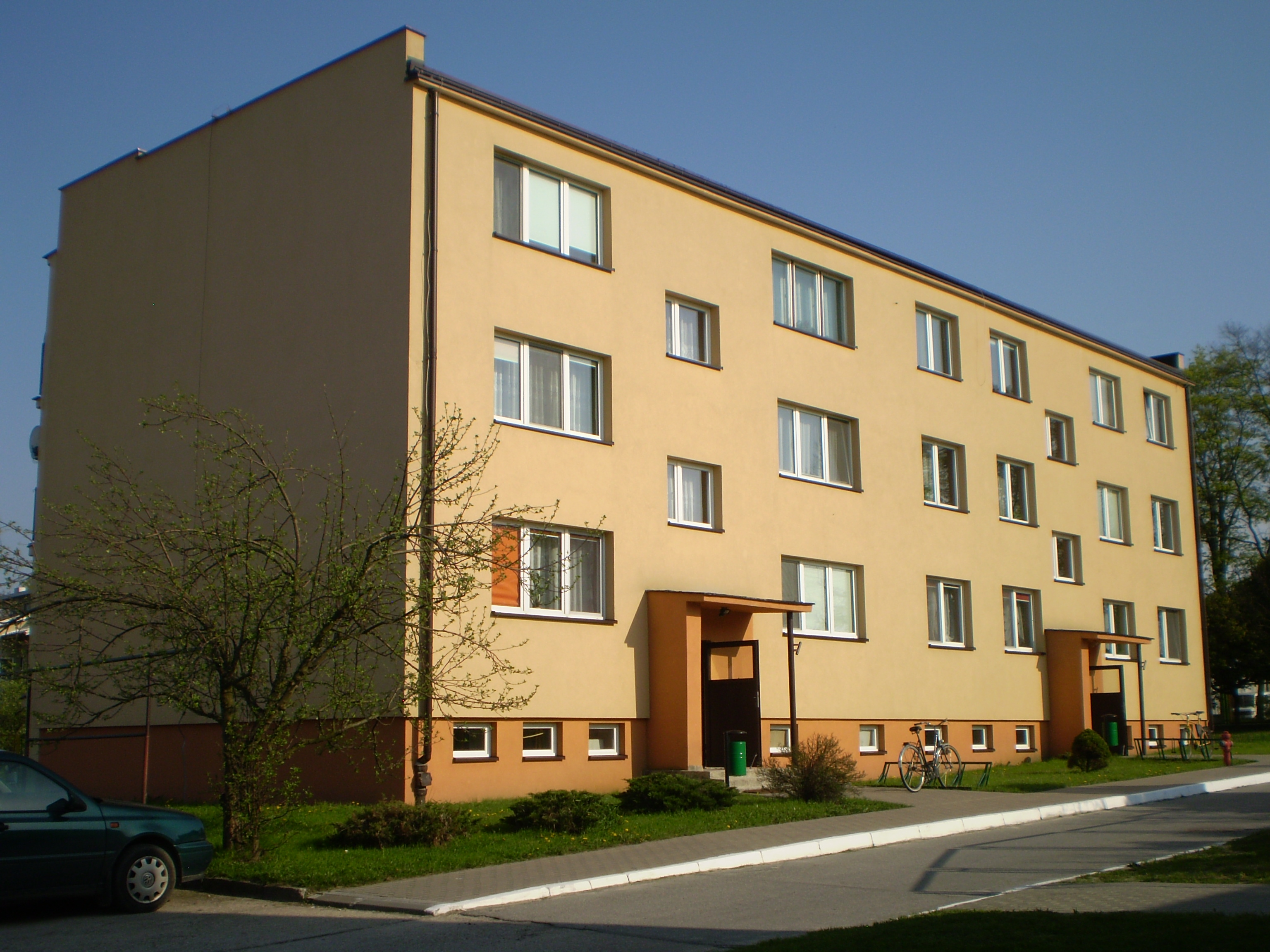 Zadzim